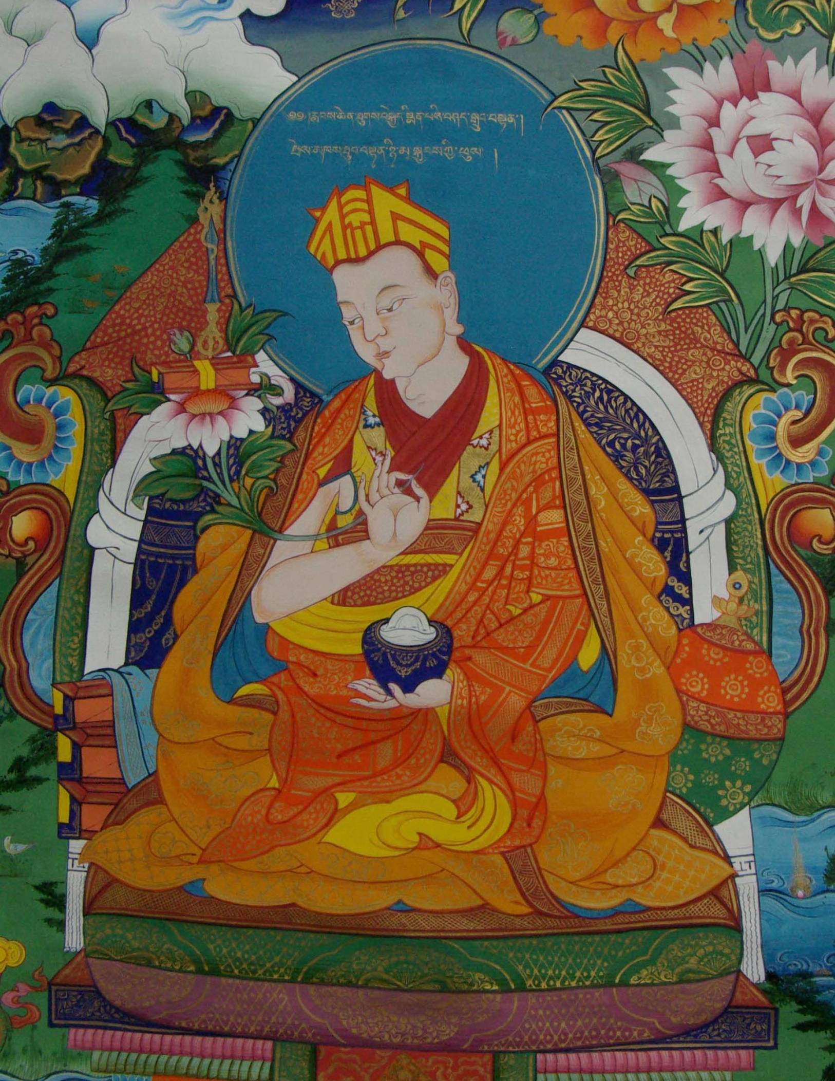 The Seventh Kirti, Kunga Chopak Tubten Nyima b.1797 - d.1848